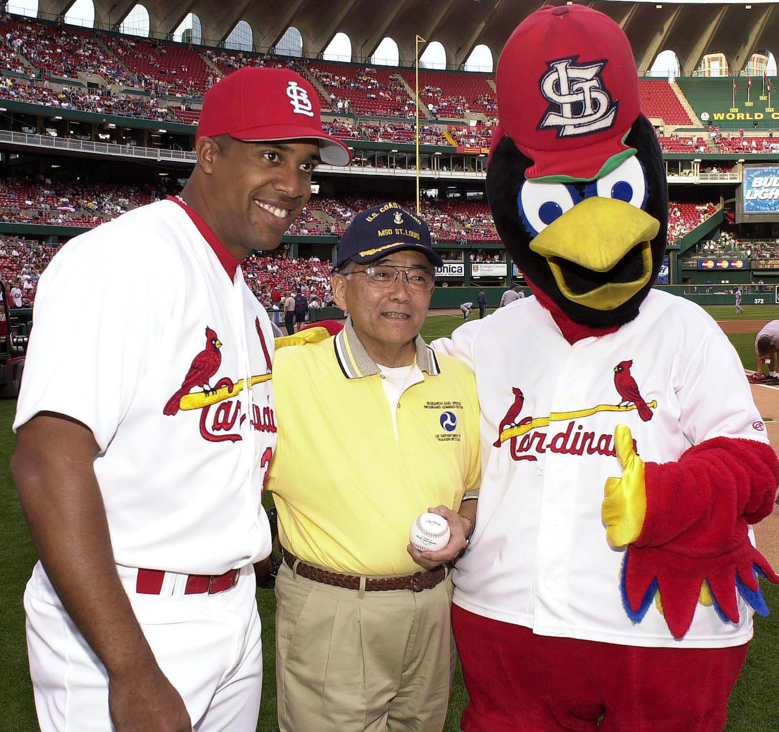 ST. LOUIS, Mo. (May 15)--Secretary of Transportation Norman Mineta is flanked by St. Louis Cardinals infielder Eduardo Perez and the Cardinals mascot before the Cards/Cubs game in St. Louis May 15, 2002. USCG photo by PA3 Chad Saylor